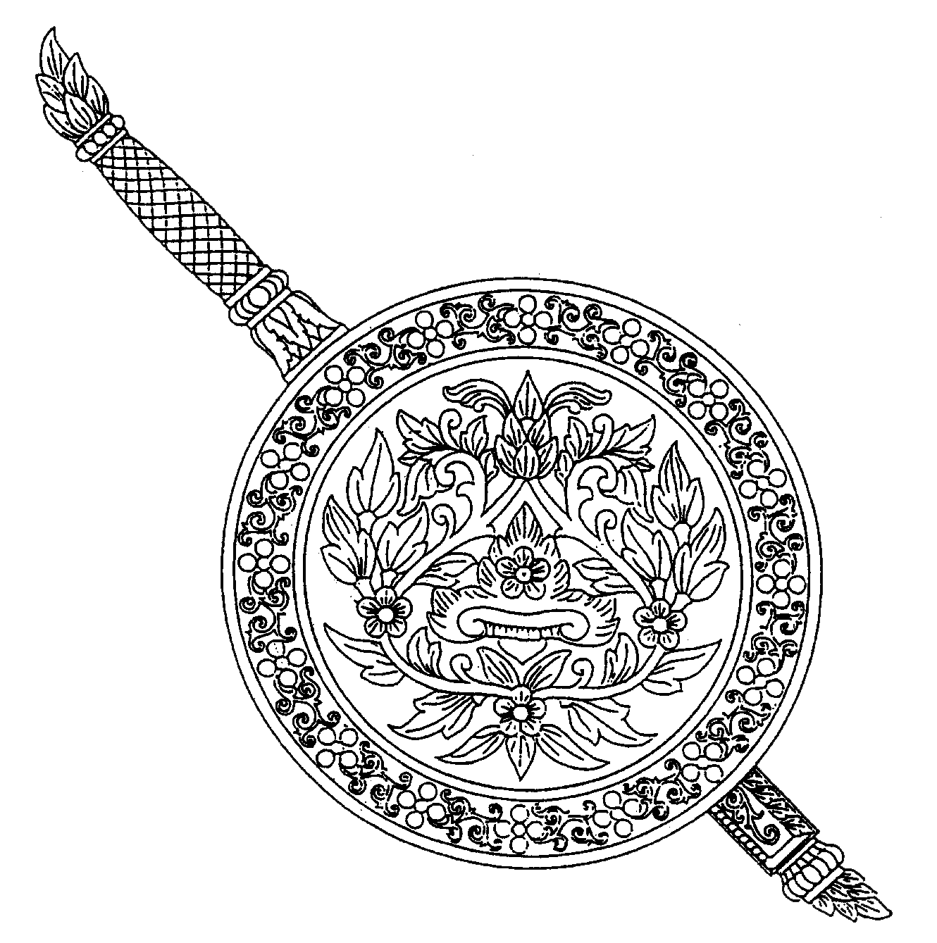 Emblem of the Royal Thai Police as appeared on the Royal Gazette in 2001